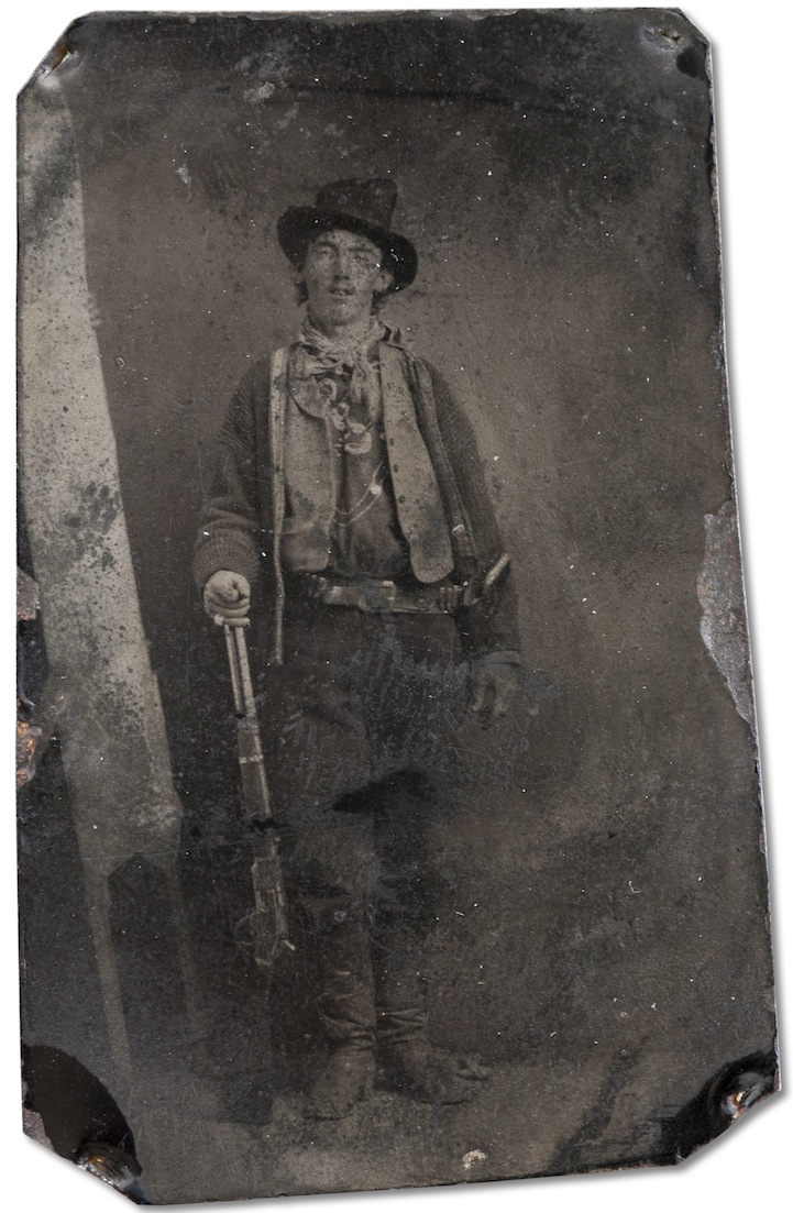 The only authenticated photograph of American gangster Billy the Kid, a tintype made in 1879 or 1880 outside a saloon at Fort Sumner, New Mexico.